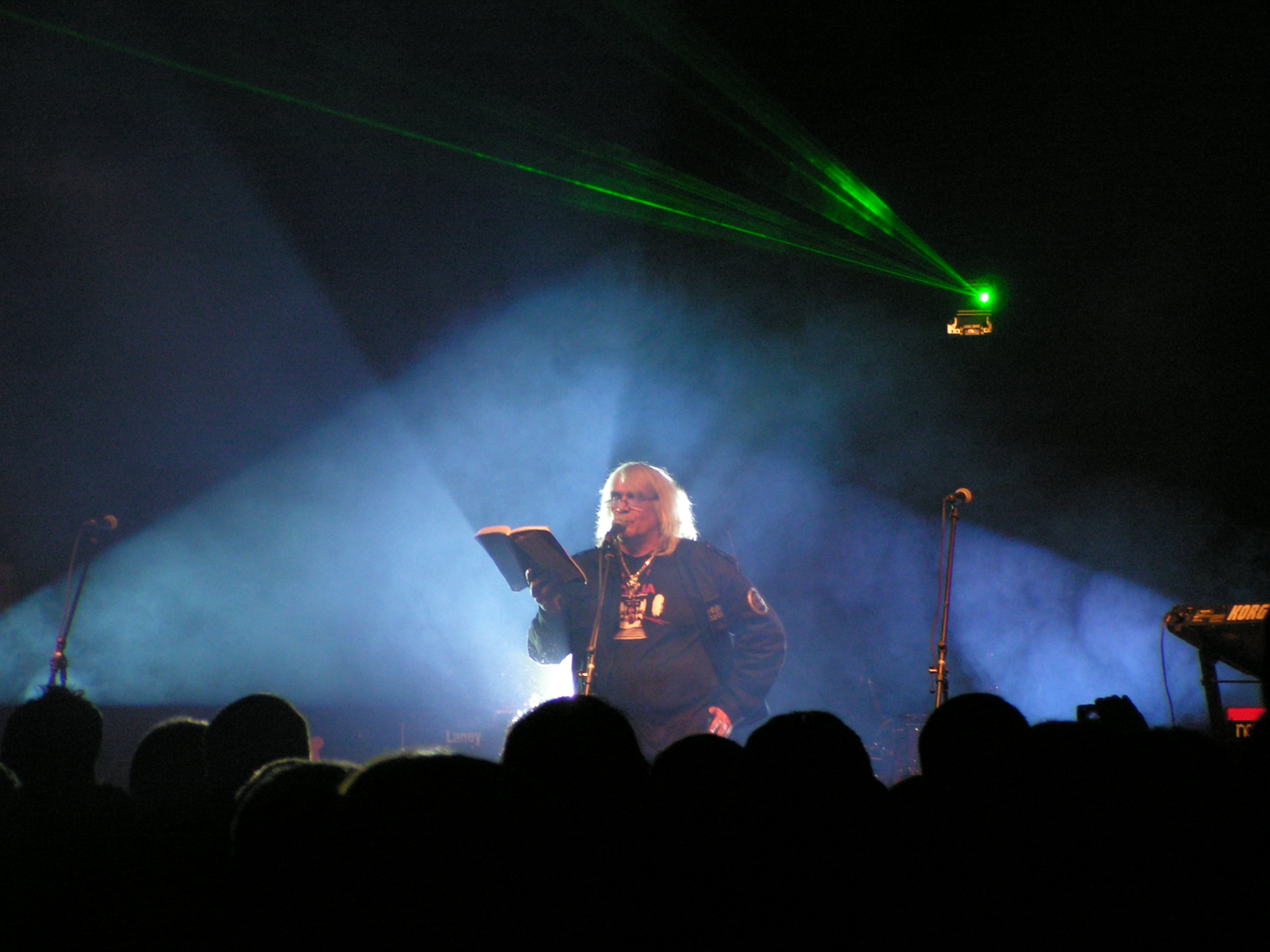 Bora Djordjevic reads his poetry at concert in Kraljevo, 24. dec. 2011.y.